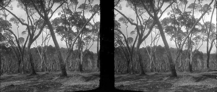 The oldest kina trees (Chinchona ledgeriana) at Java, Tjinjiroean